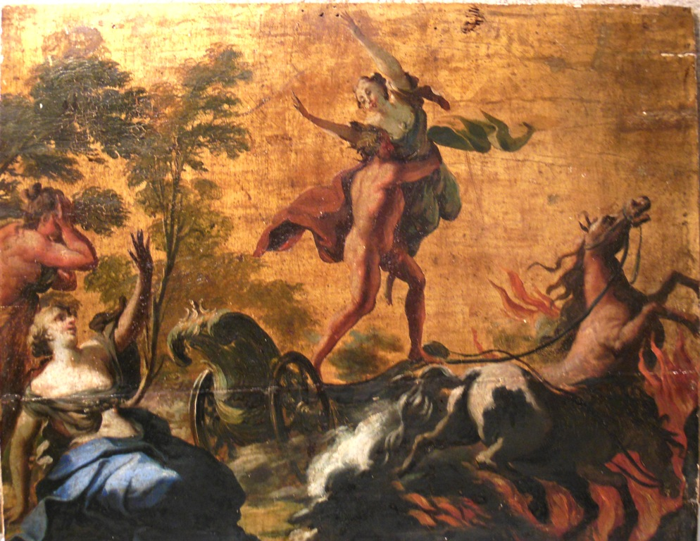 This is a painting of Hades abduction of Persephone who became his wife, and was only permitted to leave the Underworld once a year. The painting is on wood with a gold gilt background, 43 cm x 52 cm. Circa 18th century. Provided by Missing Link Antiques.